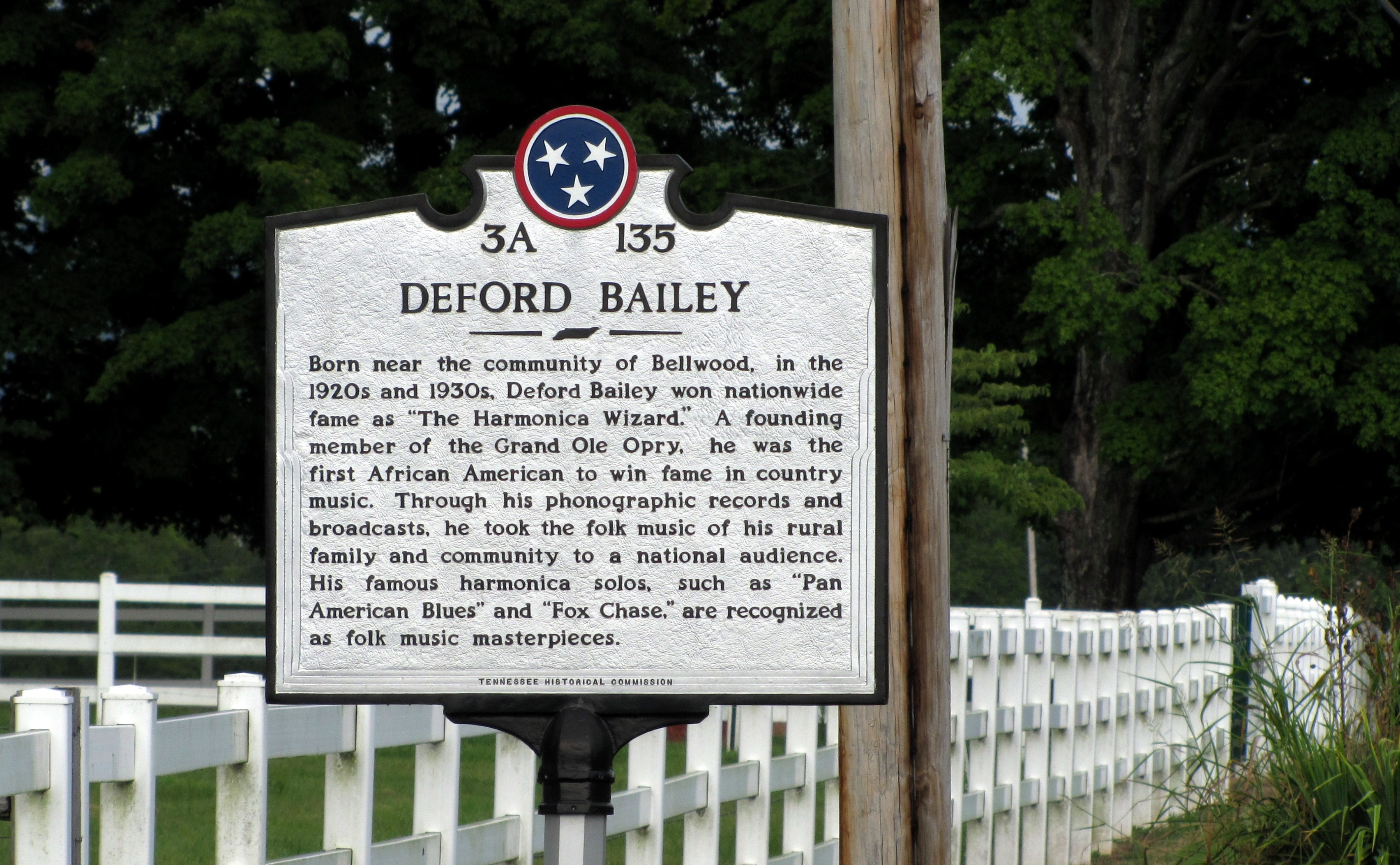 Tennessee Historical Commission marker along US-70 in Smith County, Tennessee, recalling the area as the birthplace of Grand Ole Opry harmonica player DeFord Bailey (1899–1982).